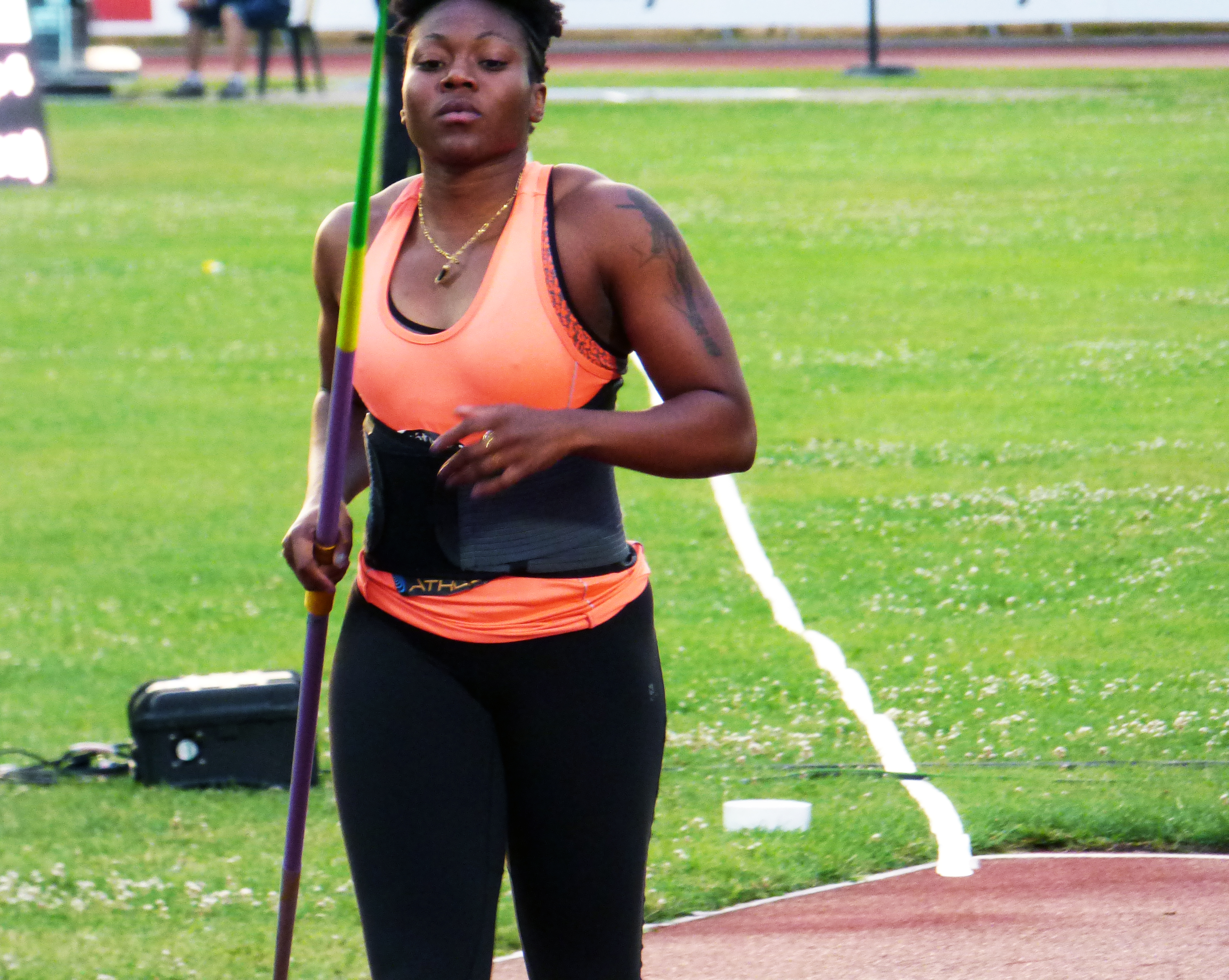 2017 Meeting Stanislas